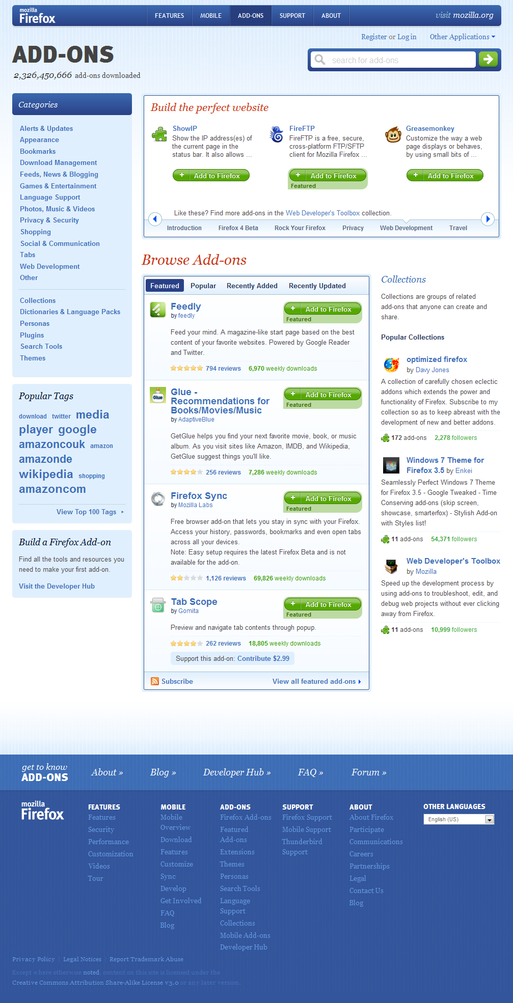 This image is a Screeenshot of Mozilla Add-ons website as seen inside Mozilla Firefox 3.6.13. Three copyright-protected items seen in the original website is selectively not loaded.